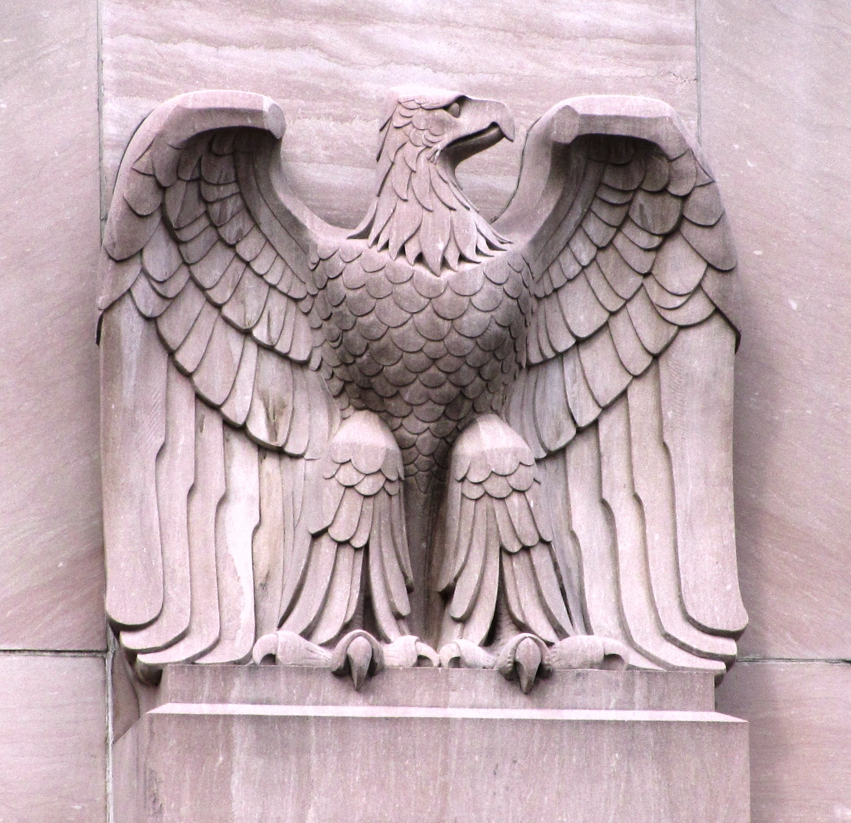 One of the four eagle sculptures on the facade of the Knoxville Post Office on Main Street in Knoxville, Tennessee, USA. The eagles were carved at the Candoro Marble Works in South Knoxville by Italian-born sculptor Albert Milani (1892–1972).